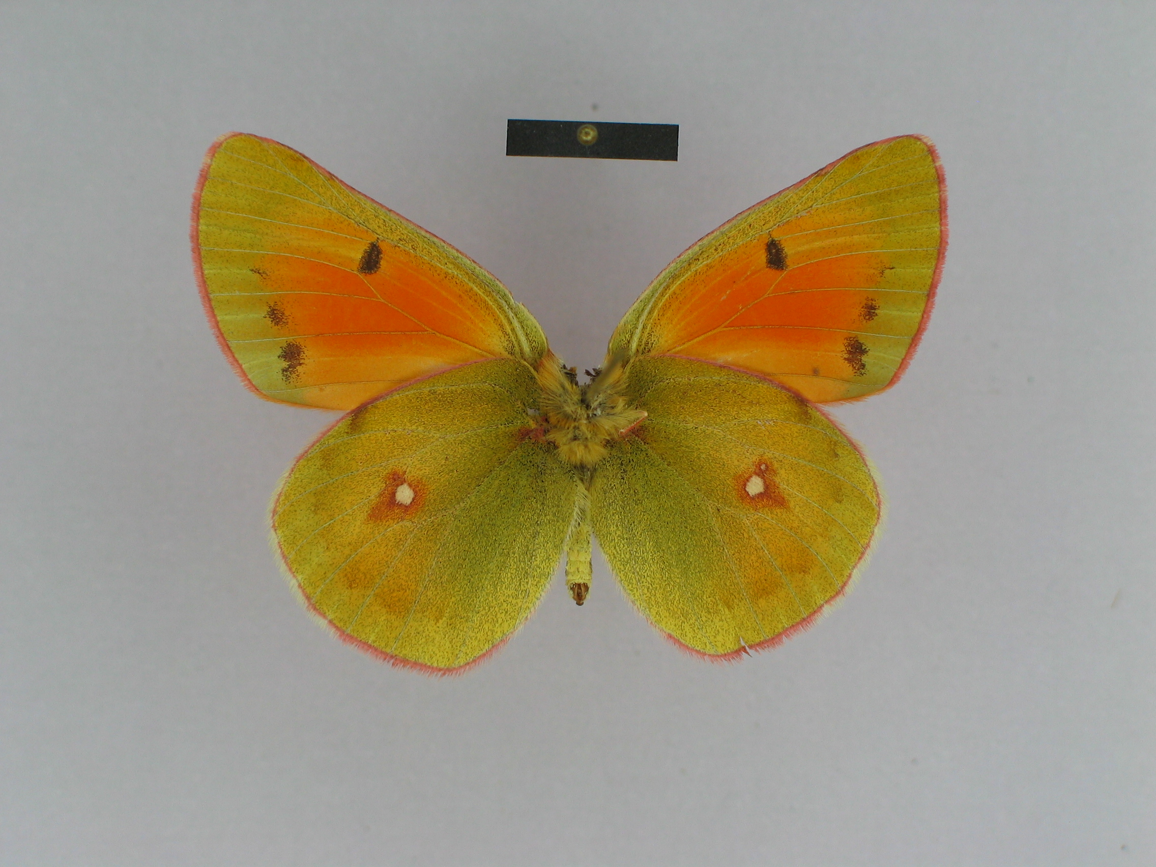 Syntype of the species Colias regia regia from the collection of the Zoological Museum of the Zoological Institute of the Russian Academy of Sciences (Berlin); ♂ ventral side; scalebar=1 cm